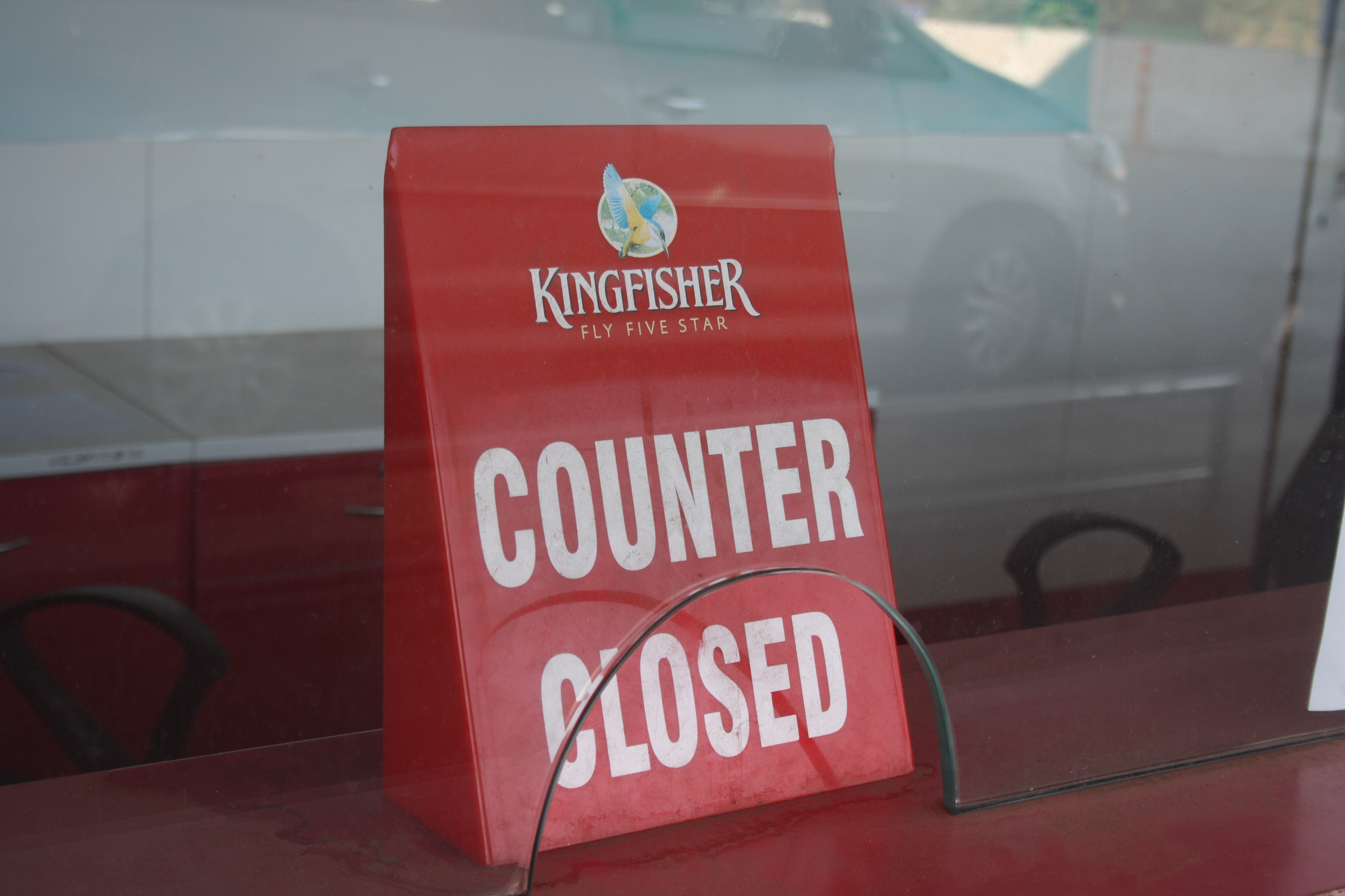 A closed Kingfisher Airlines counter at the Goa airport after the airline went bankrupt.